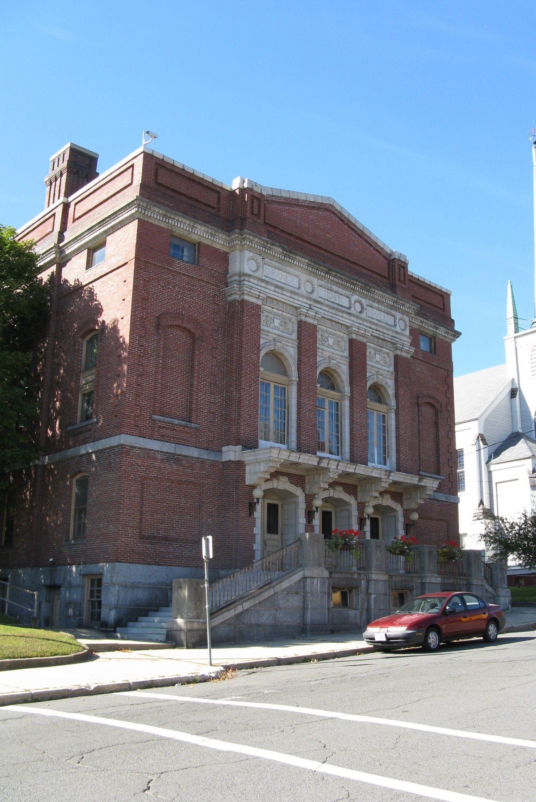 Town Hall, Orange Massachusetts